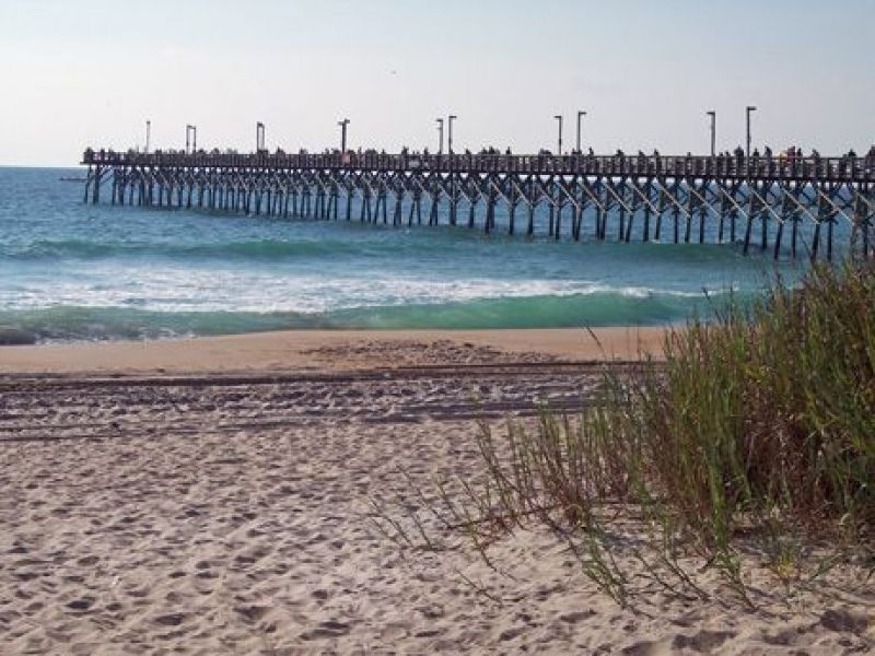 Pier from the left